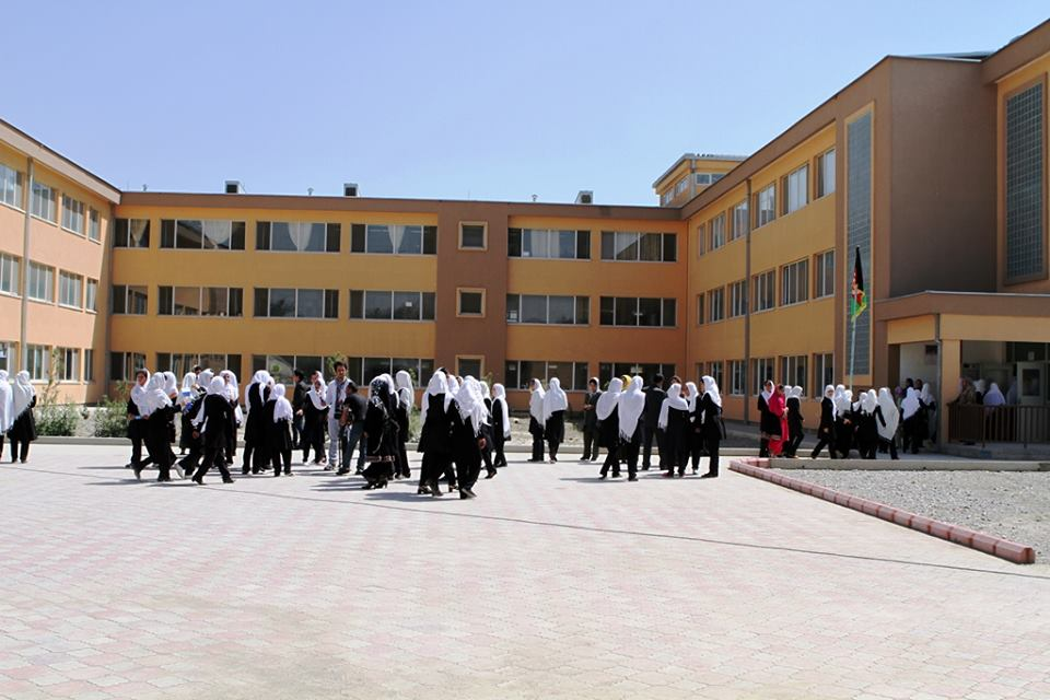 PHOTO: USAID funded the construction of Sardar-e-Kabuli High School which helps meet the educational needs of 12,000 boys and girls annually. (Photo: USAID)